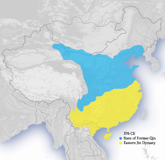 Map of Sixteen Kingdoms period (304-439) in AD 376. Showing the Eastern Jin Dynasty (265-420) and state of Former Qin.